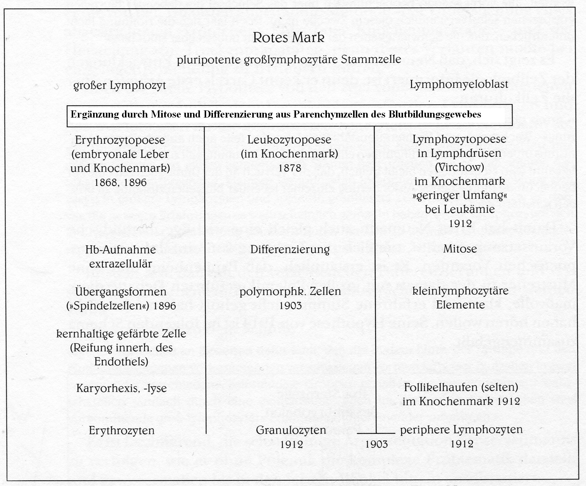 The history of the Haematopoetic Stem Cell dates back to the beginning of the Institut of Pathologie Koenigsberg 1868. This chart has been shown during a lecture, the user has given in 1994 during the celebration to 450-years Albertina Königsberg in Kaliningrad